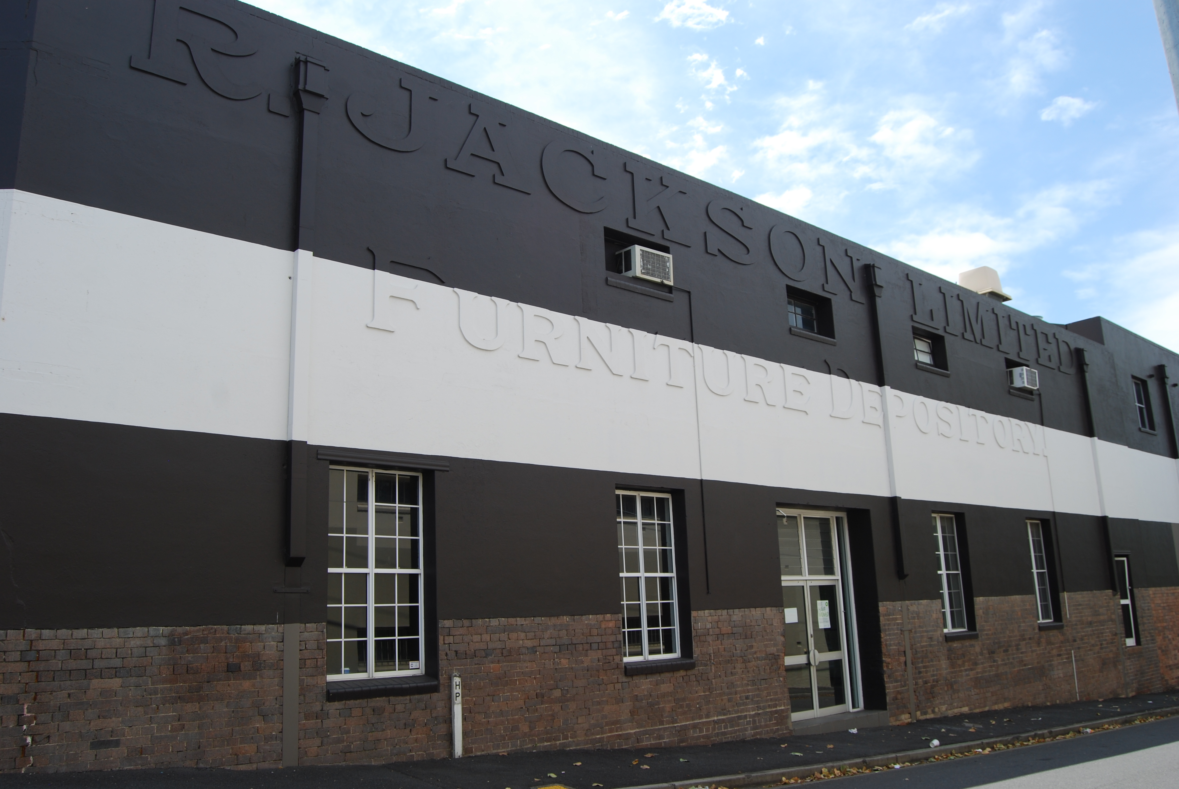 Lange Powell